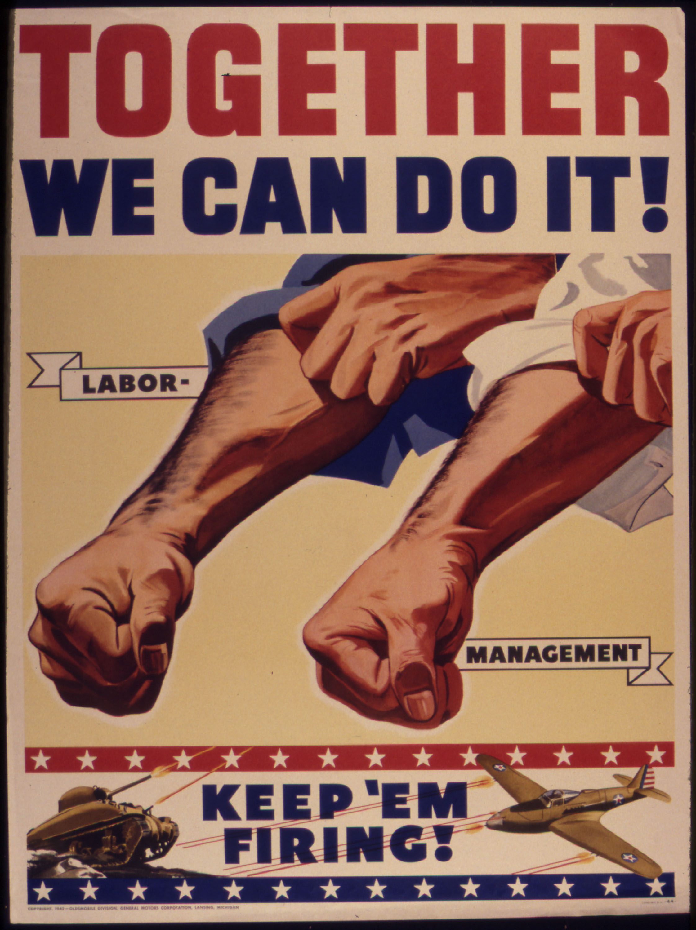 "Together We Can Do It! Labor. Management. Keep `Em Firing!" U.S. National Archives’ Local Identifier: NWDNS-179-WP-915 From: Series: War Production Board (Record Group 179) Created by: Office for Emergency Management. War Production Board, (01/1942 - 11/03/1945) Persistent URL:[1]